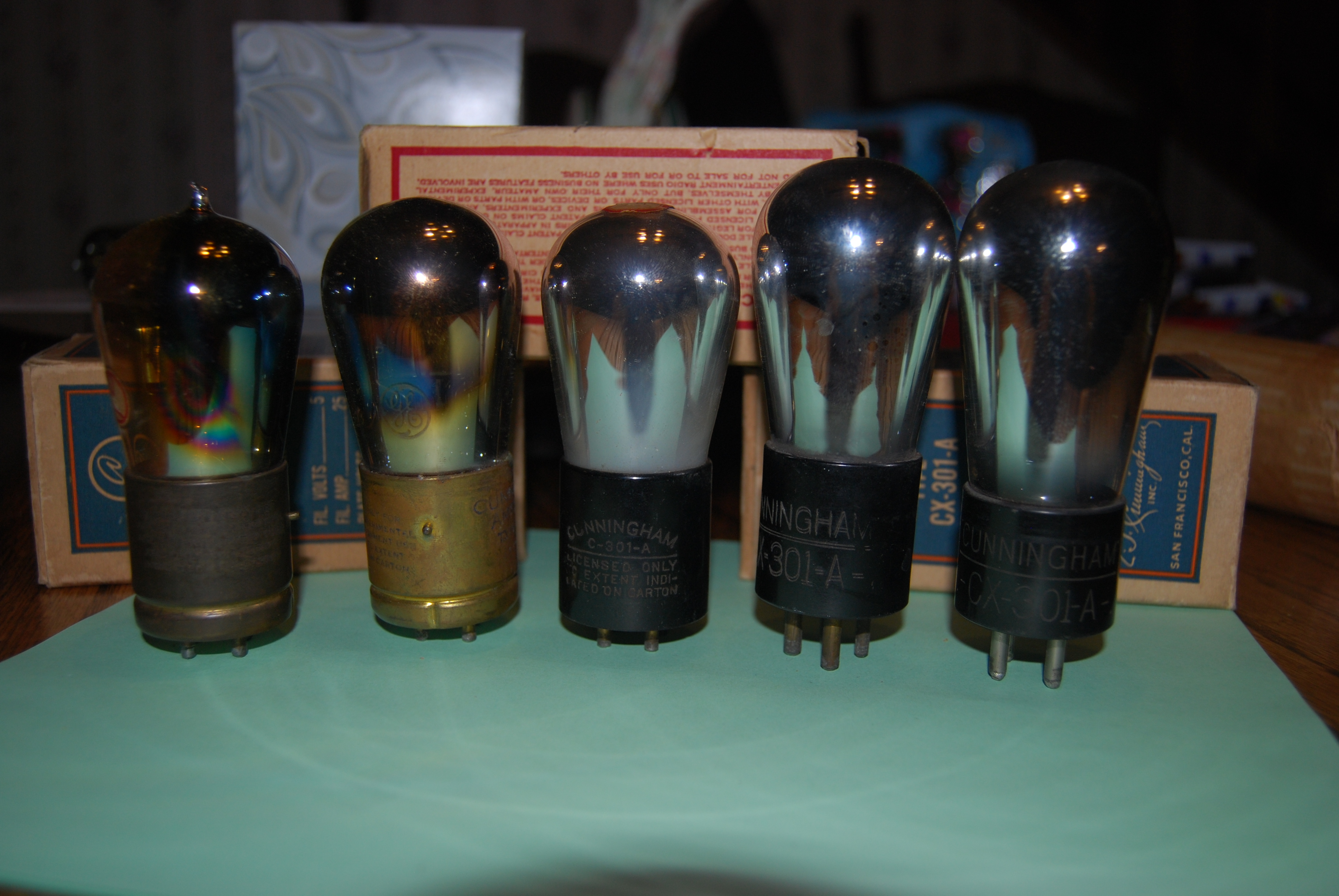 After the 1920 RCA lawsuit, Cunningham tubes mirrored RCA brand tubes. All of these tubes were designed by General Electric.